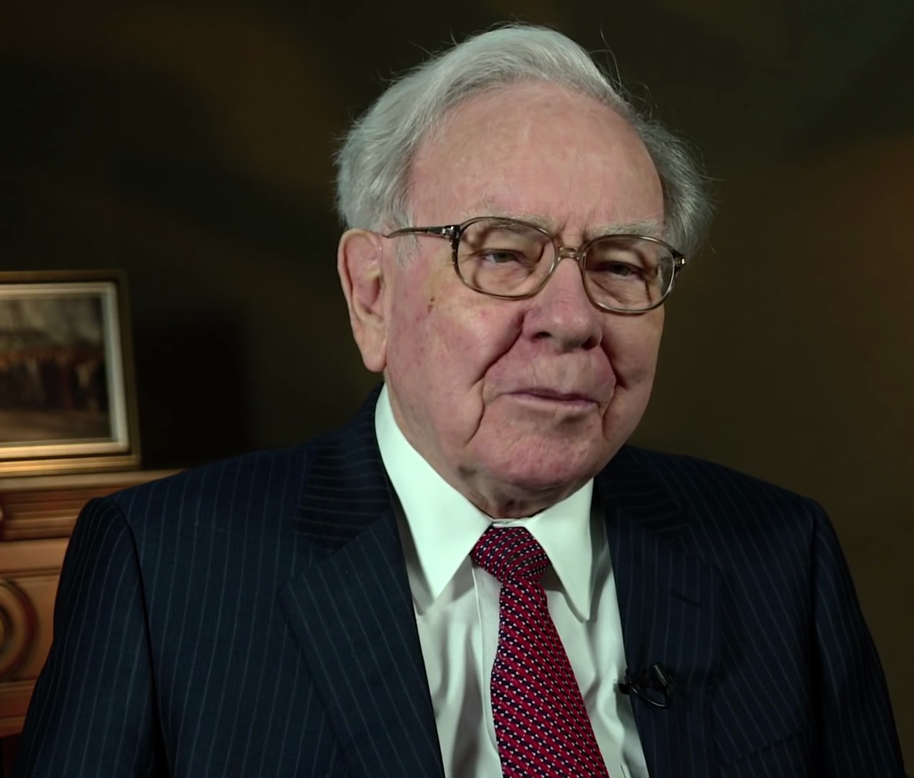 Warren Buffett at the 2015 SelectUSA Investment Summit